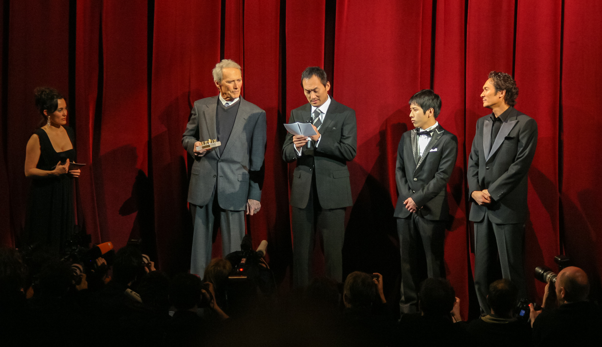 Clint Eastwood and the actors of Letters from Iwo Jima at the Berlinale 2007